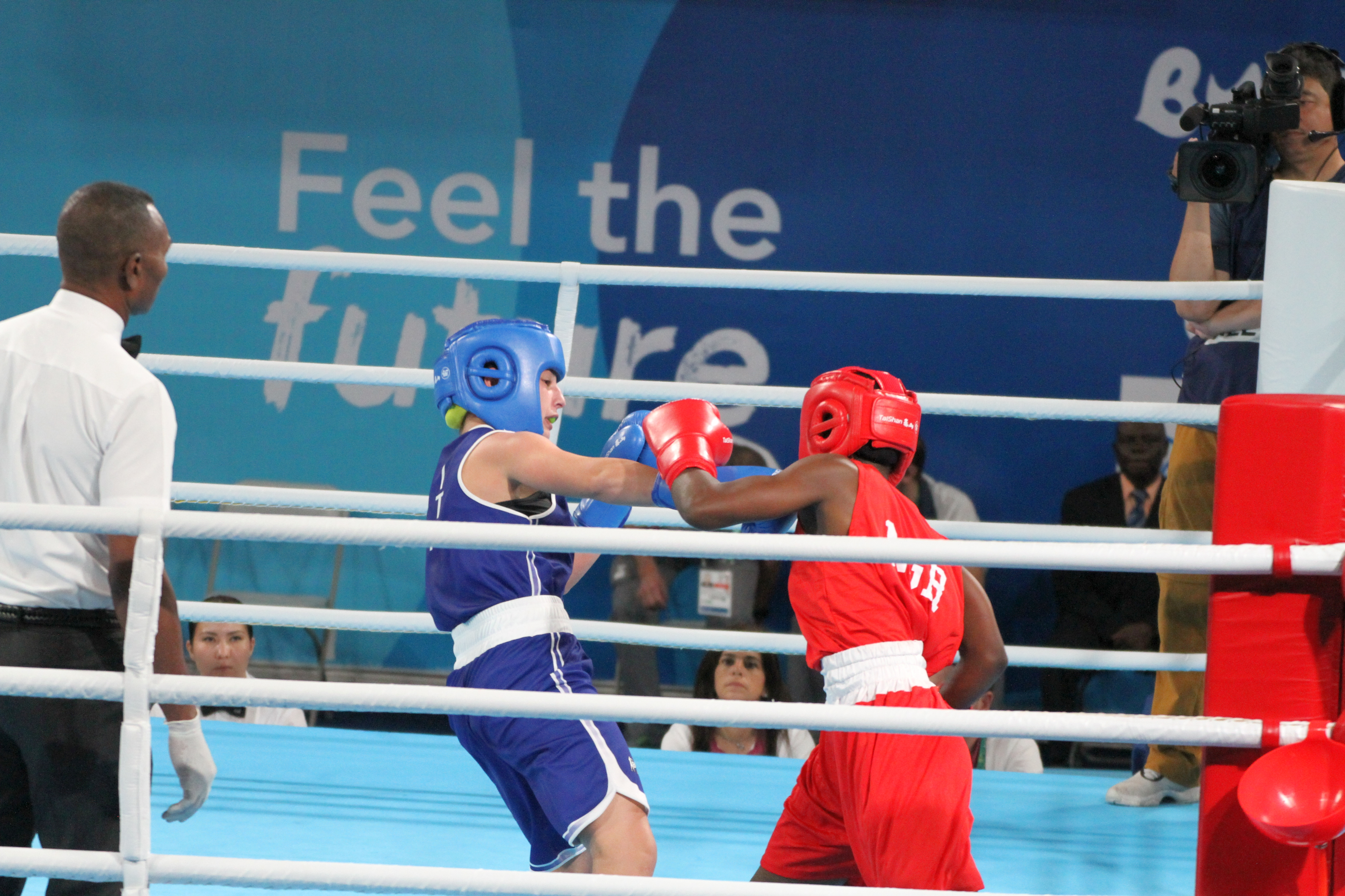 Boxing at the 2018 Summer Youth Olympics on 18 October 2018 – Girl's flyweight Gold Medal Bout - Martina La Piana (Italy, blue) beats Adijat Gbadamosi (Nigeria, red) 5-0; Referee is James Beckles (Trinidad and Tobago).